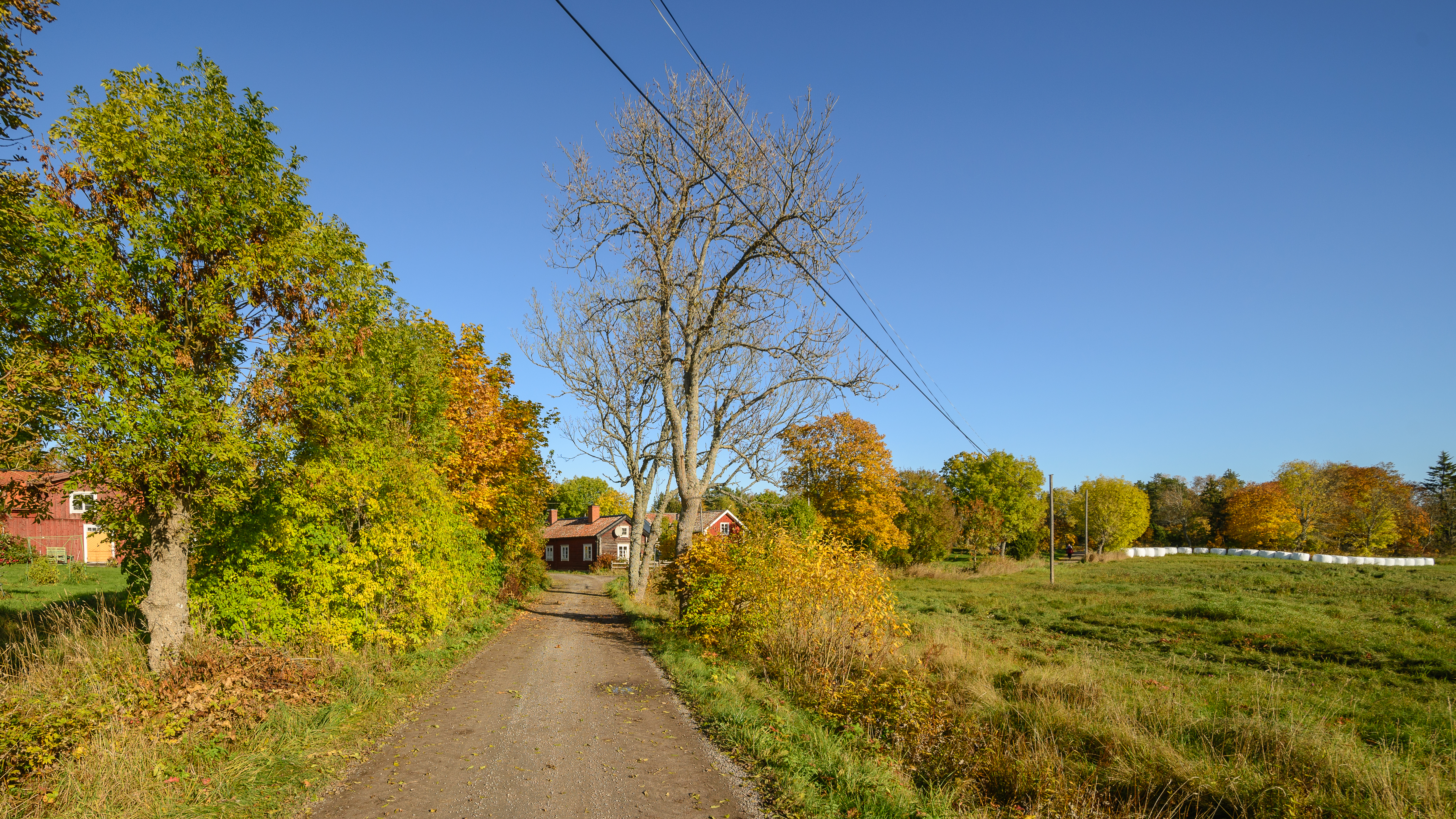 Road an landscape on the island Arholma in Stockholm archipelago.